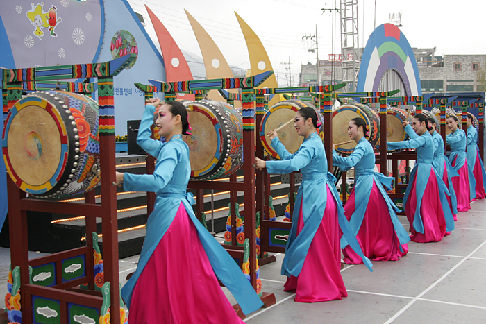 In 2010, Sansuyu festival will be held from Mar. 18 - 21 (4 days) Venue: Jirisan Mountain, Sandong-myeon, Gurye-gun, Jeollanam-do Sansuyu flowers, the bloom of the Cornus fruit trees, are used to make tea, alcohol and culinary art, all of which visitors can sample at the festival.